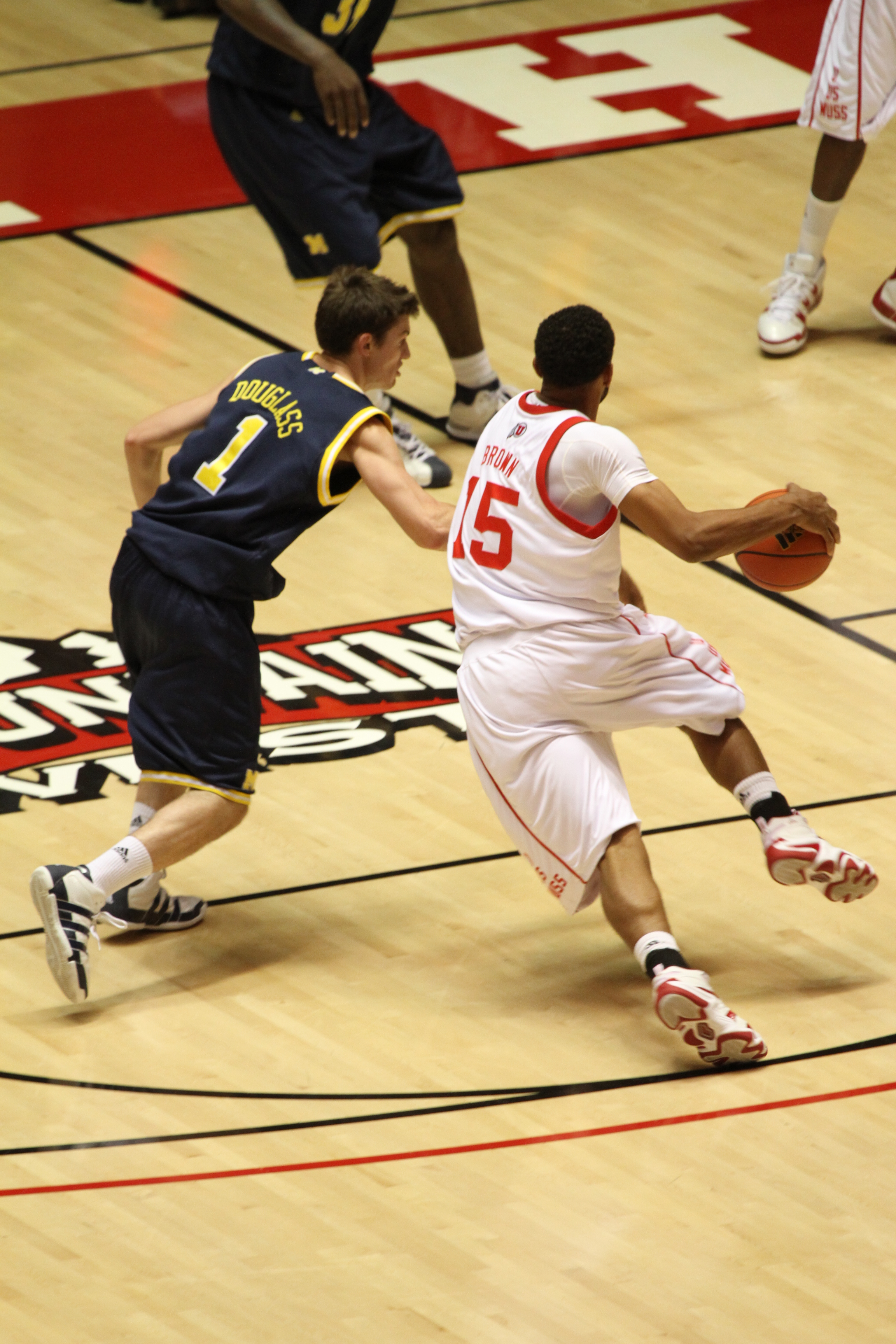 Stu Douglass of w:2009–10 Michigan Wolverines men's basketball team defending against w:2009–10 Utah Utes men's basketball team